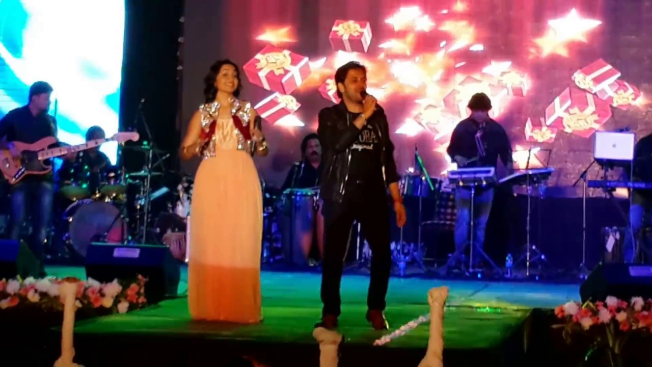 Javed Ali performing at Youthopia 2016.